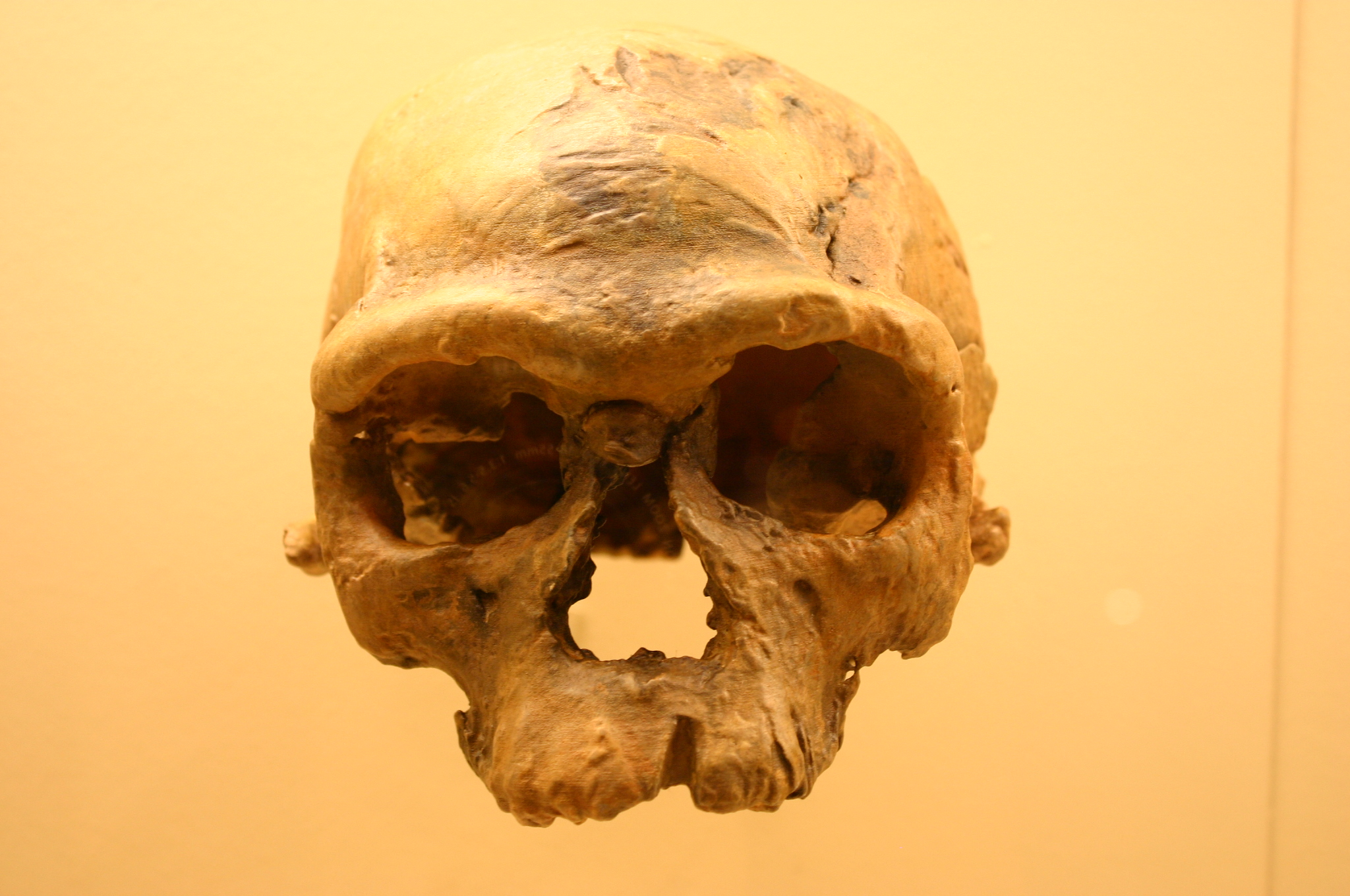 Taken at the David H. Koch Hall of Human Origins at the Smithsonian Natural History Museum.